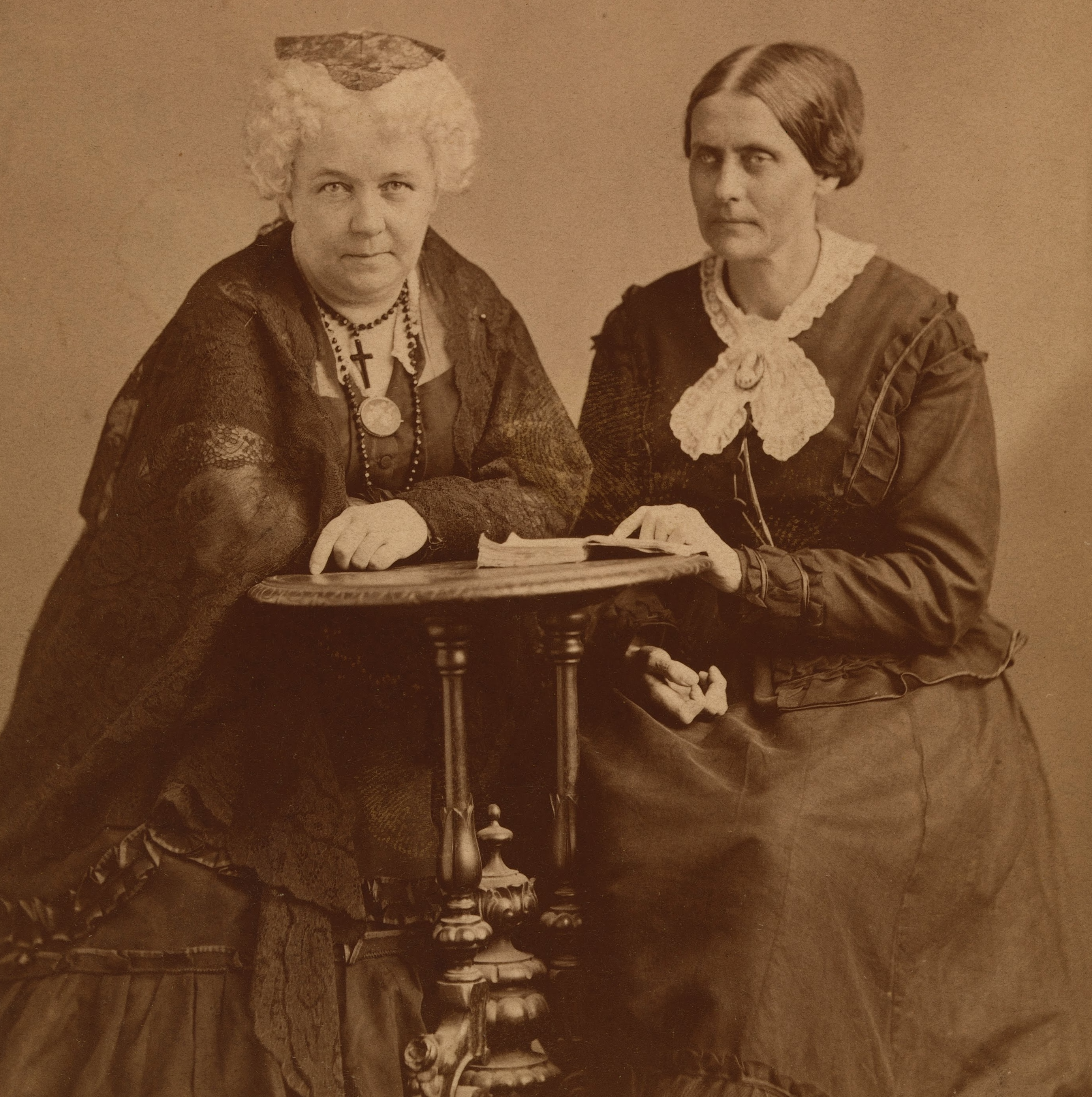 Cropped and retouched version of "Elizabeth Cady Stanton and Susan B. Anthony" by Napoleon Sarony. Original is in the National Portrait Gallery, Washington, DC., accession number S.NPG.77.48.